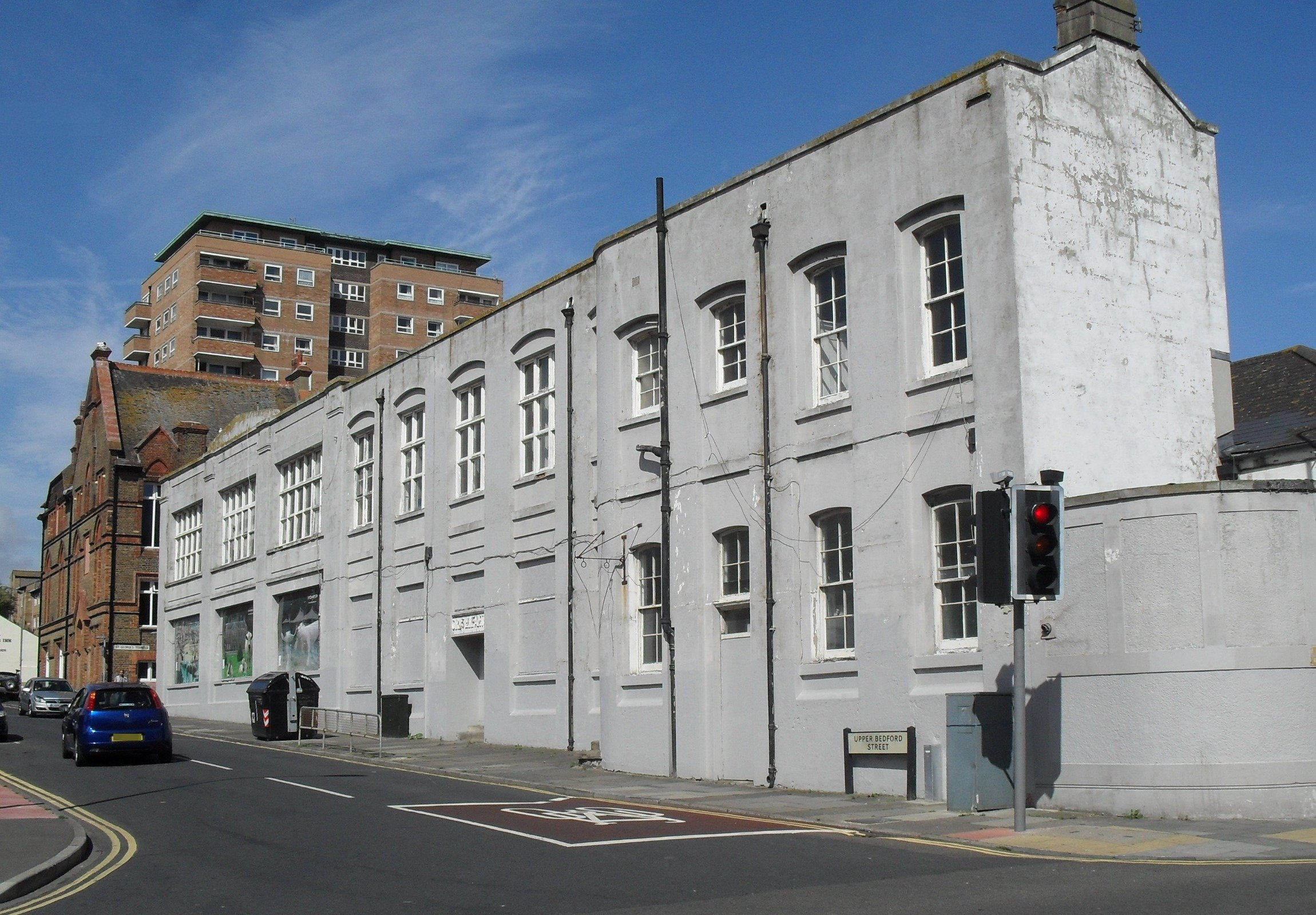 Pelham Institute (left, behind the car) and Fitzherbert Centre (foreground), Upper Bedford Street, Kemptown, City of Brighton and Hove, England. Respectively, a working men's club, social venue and hostel, built in 1877 by Thomas Lainson on behalf of the Vicar of Brighton; and a disused Roman Catholic school.